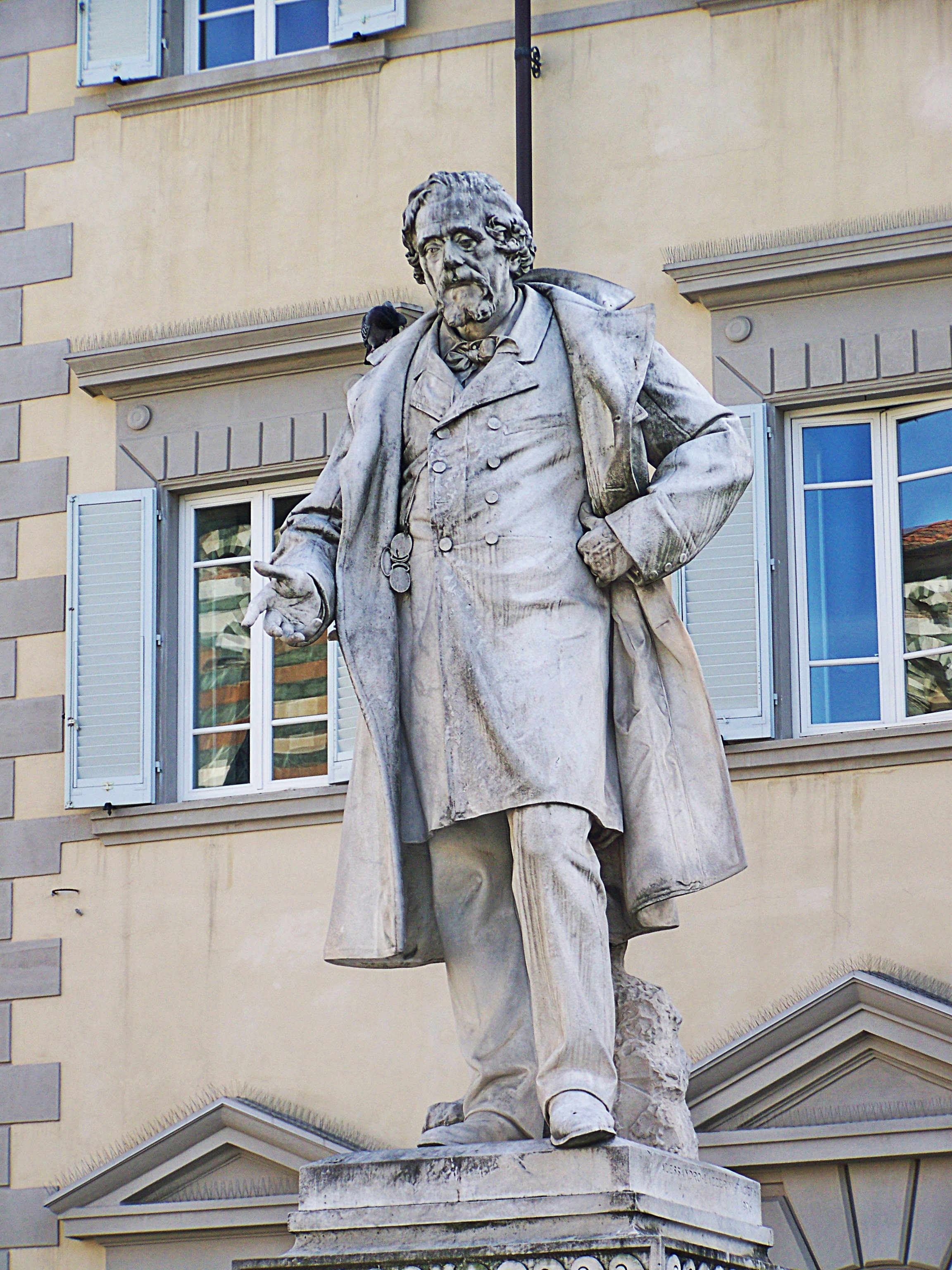 Mazzoni monument